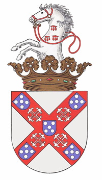 Coat of Arms of the Cadaval family for free disposal at the official site at